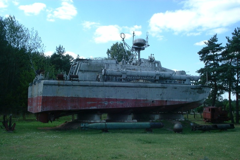 Polish torpedo boat ORP Odważny Project 664 ('Wisla' class) in Muzem Orła Białego (White Eagle Museum) in Skarżysko-Kamienna, Poland. Powered by a gas turbine, maximum speed 49 knots.